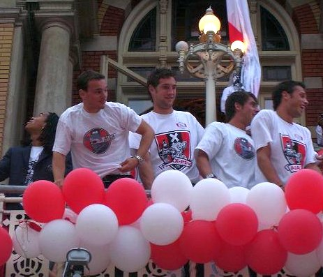 Urby Emanuelson, Wesley Sneijder, Maarten Stekelenburg, Zdeněk Grygera, and John Heitinga.